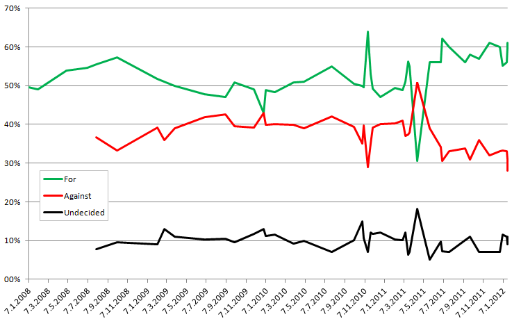 Croatian EU membership opinion polls - results graph